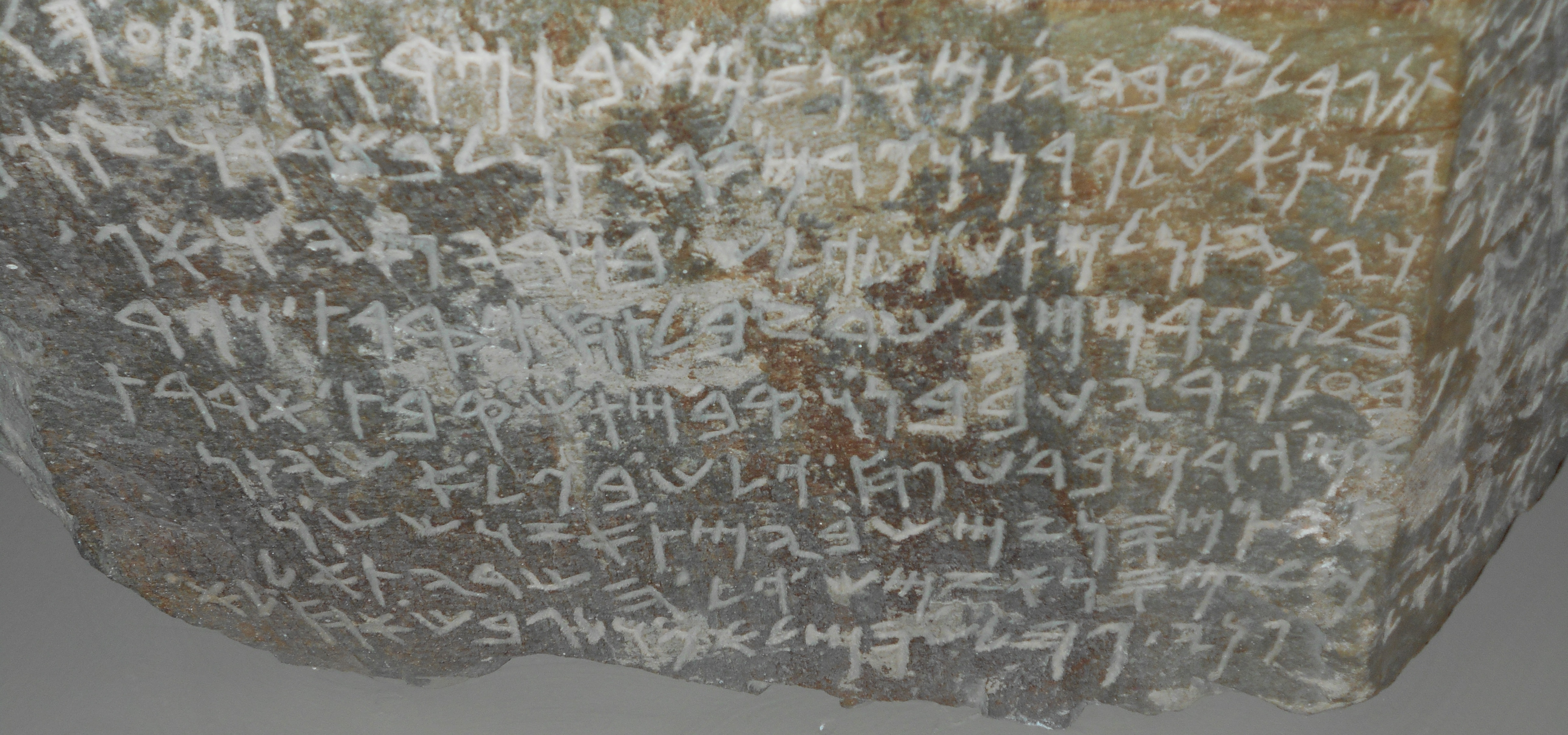 Phoenician insciption documenting the bestowal of land by "slprn", the governor of "ylps" to a man named "msnzms", Archeological Museum of Alanya, Turkey